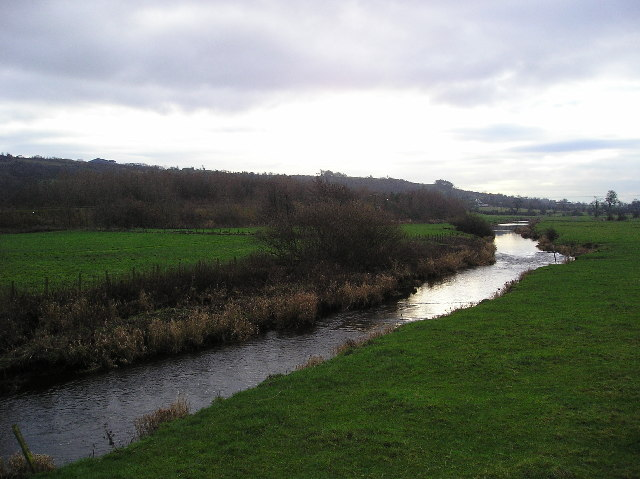 Black Cart SE. The Black Cart Water looking southeast from Garthland bridge.